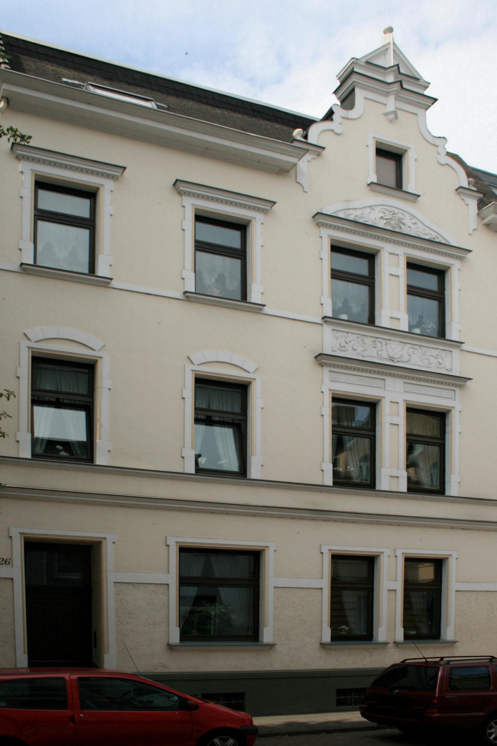 Cultural heritage monument No. B 157 in Mönchengladbach